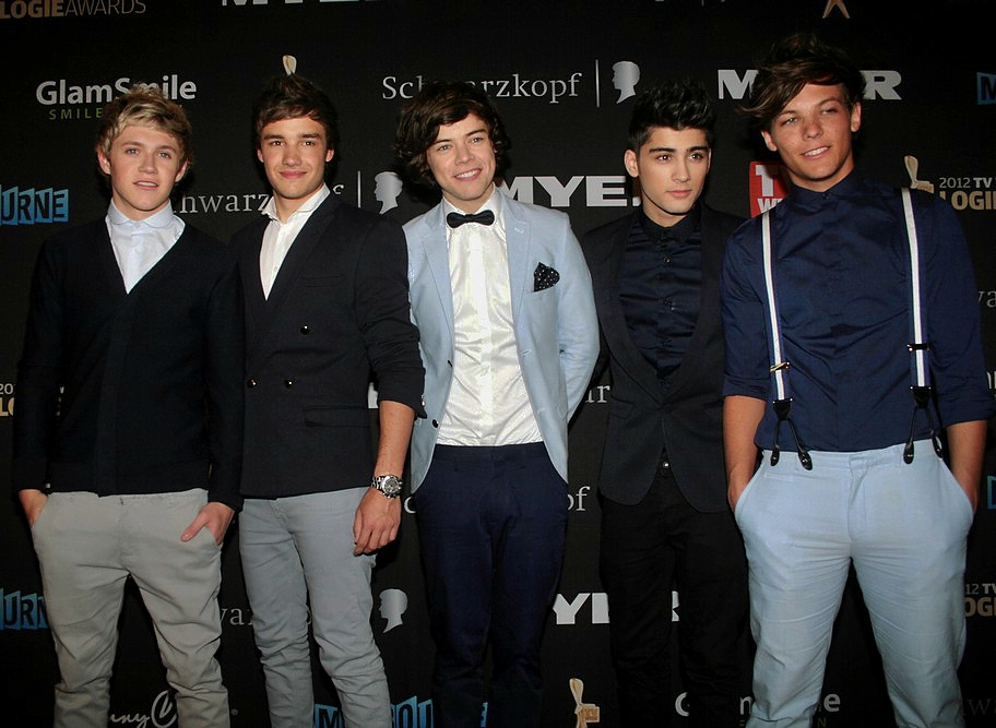 2012 TV Week Logie Awards – Red Carpet Arrivals – One Direction.thais From left to right: Niall Horan, Liam Payne, Harry Styles, Zayn Malik and Louis Tomlinson. Location: Crown Casino, Melbourne